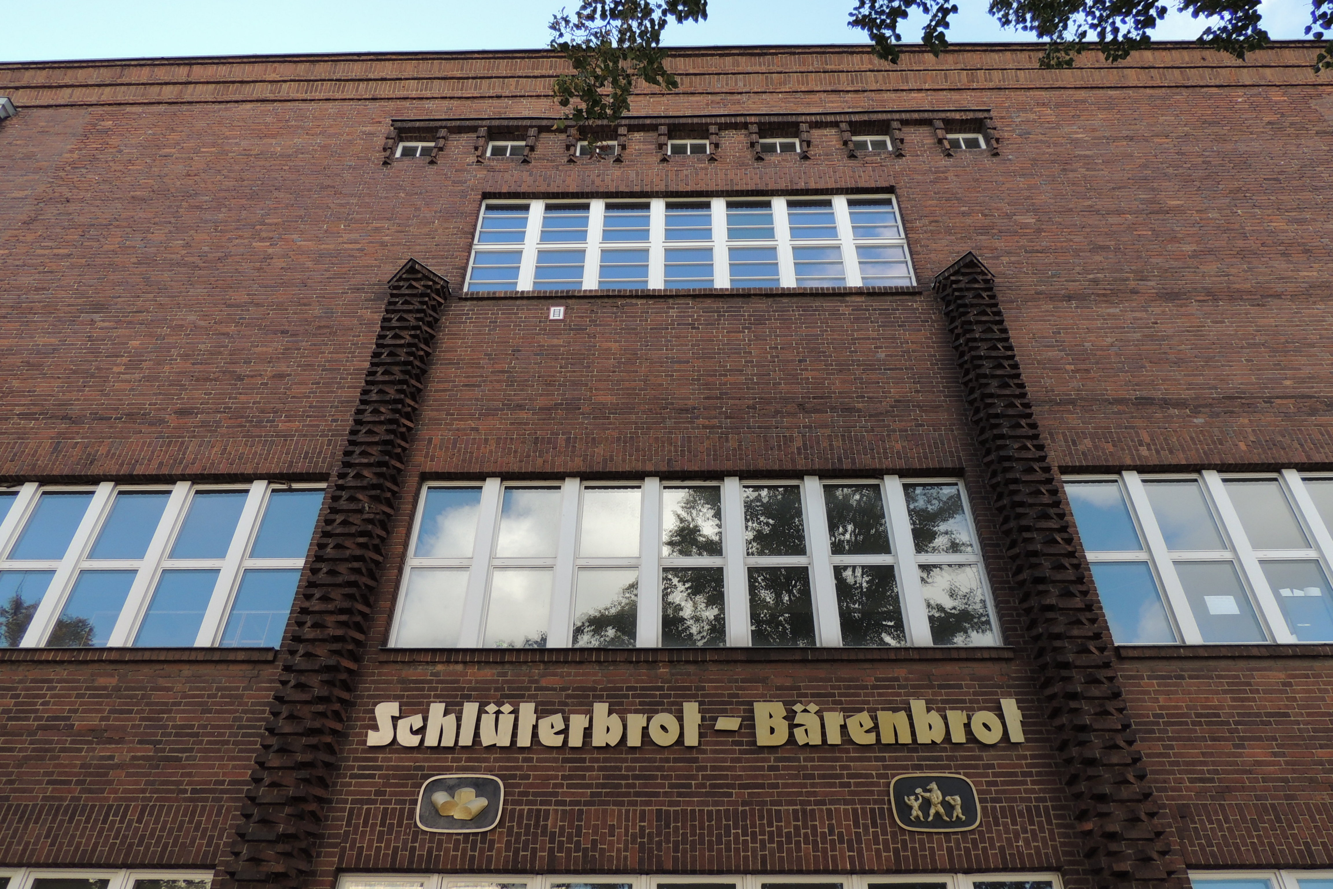 Schlüter-Bärenbrot in Berlin-Schöneberg, Eresburgstreet/Alboinstreet/Magirusstreet